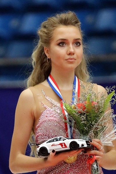 Elena Radinova at the Cup of China 2016